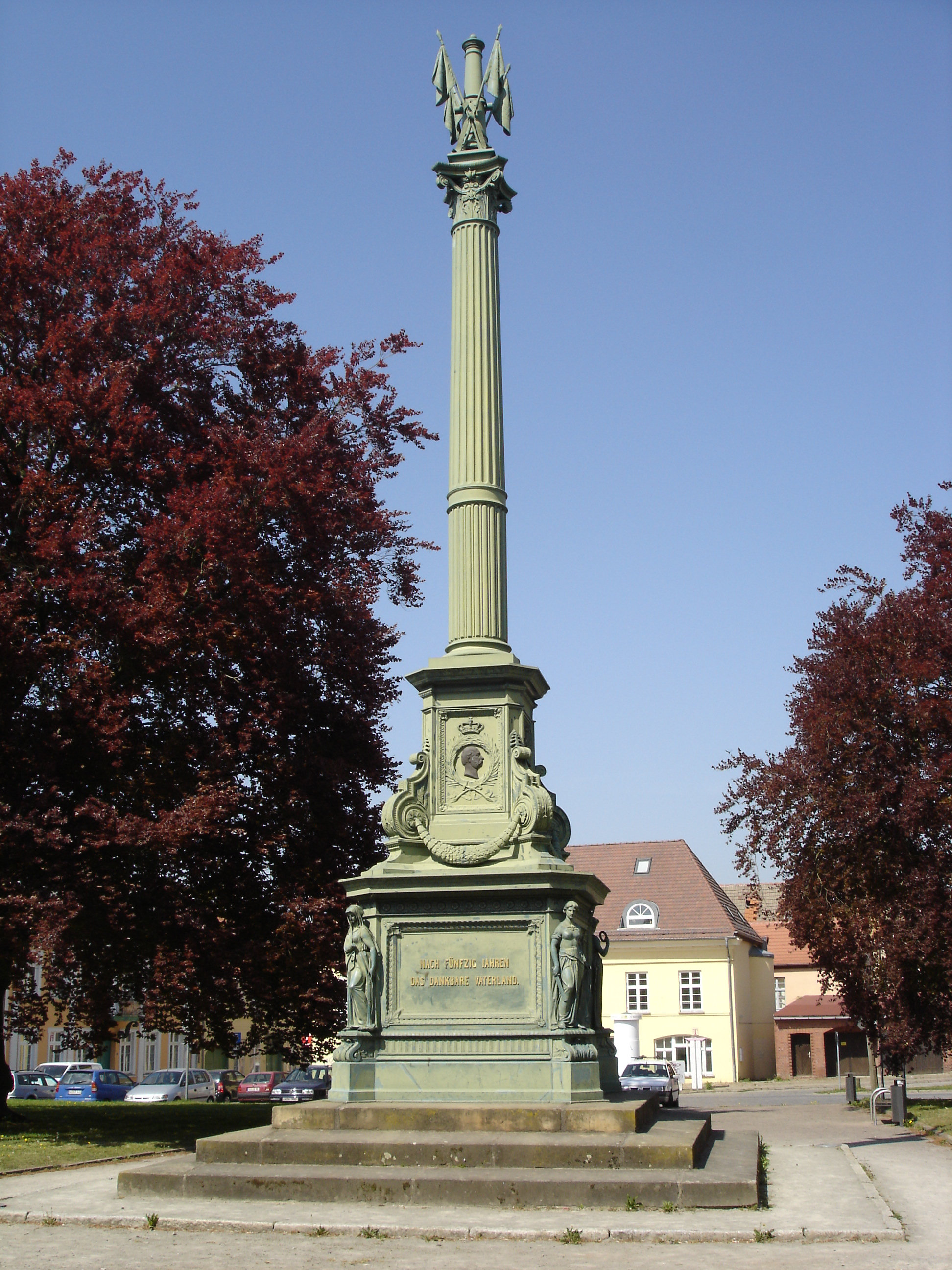 Memorial Napoleonic War of Liberation 1813 in Güstrow, Mecklenburg-Vorpommern